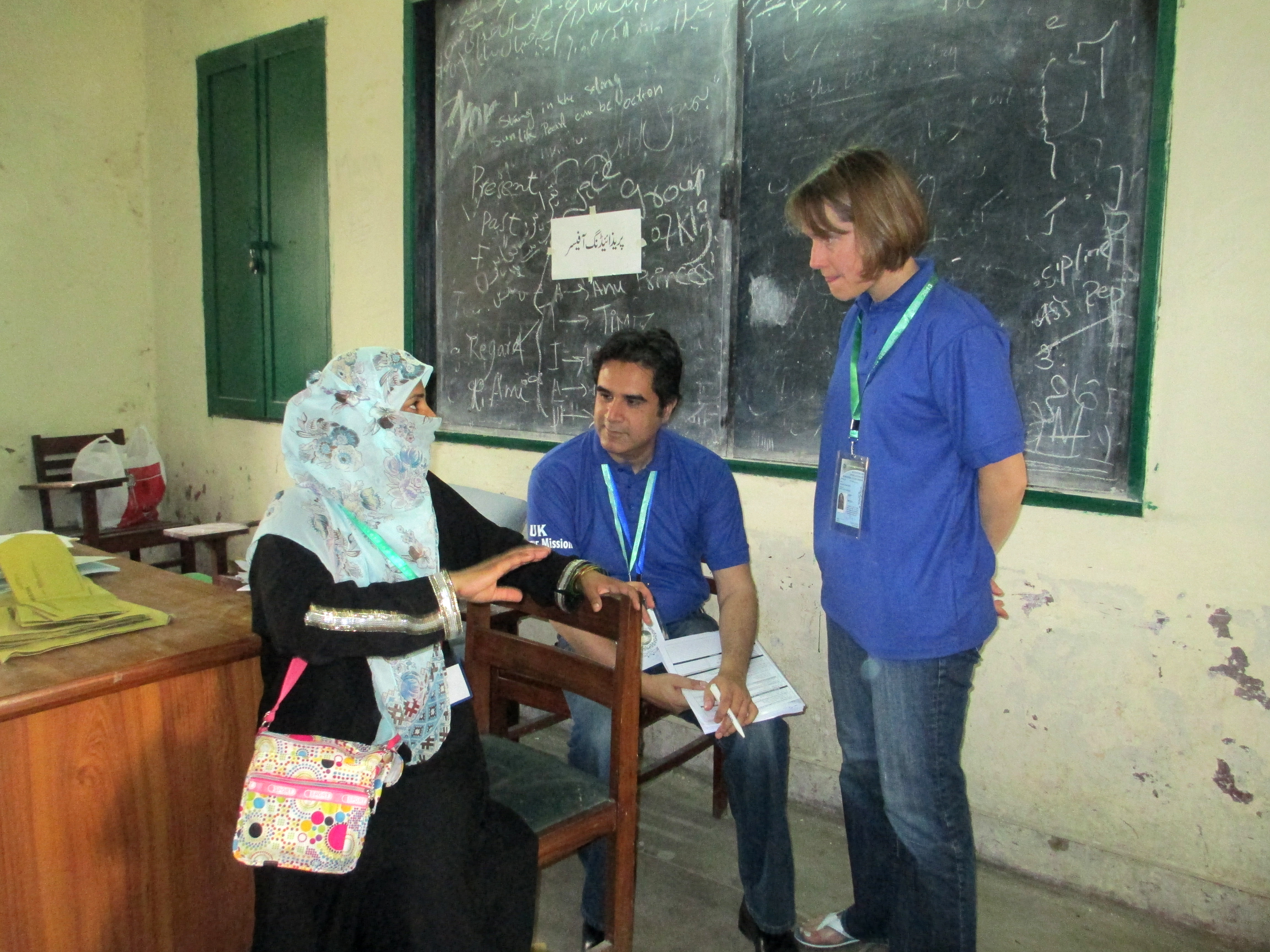 UK aid staff Sakander (centre) and Debbie (right) were on hand as part of the EU's Election Observation Mission to help monitor the voting process. Chief Observer Michael Gahler said: “Election day showed the commitment of the people of Pakistan to democratic governance by overcoming militant violence. We saw a competitive process, with twice as many candidates as there were in 2008. While various aspects of the election process have improved, there were still shortcomings. It is important that the framework for elections is further developed, so that democracy is strengthened.”